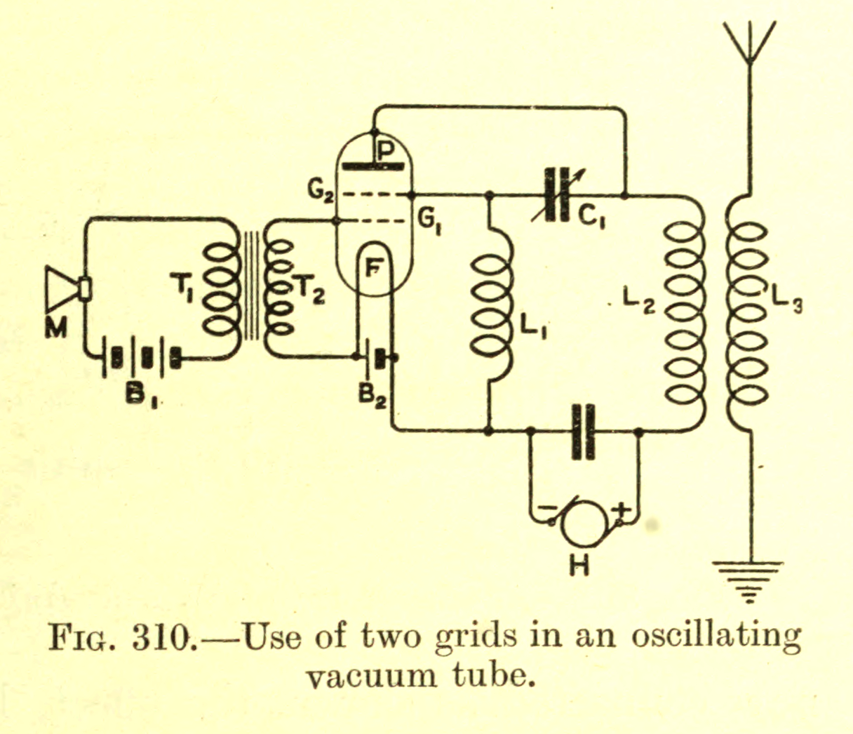 Bigrid tetrode application as self-oscillating am transmitter